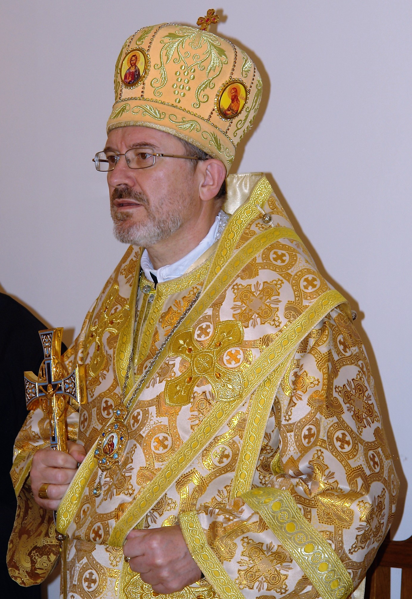 Bishop Milan Sasik